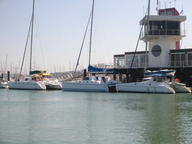 Les Minimes harbour in La Rochelle. Personal photograph, 2003. Released in the Public Domain.